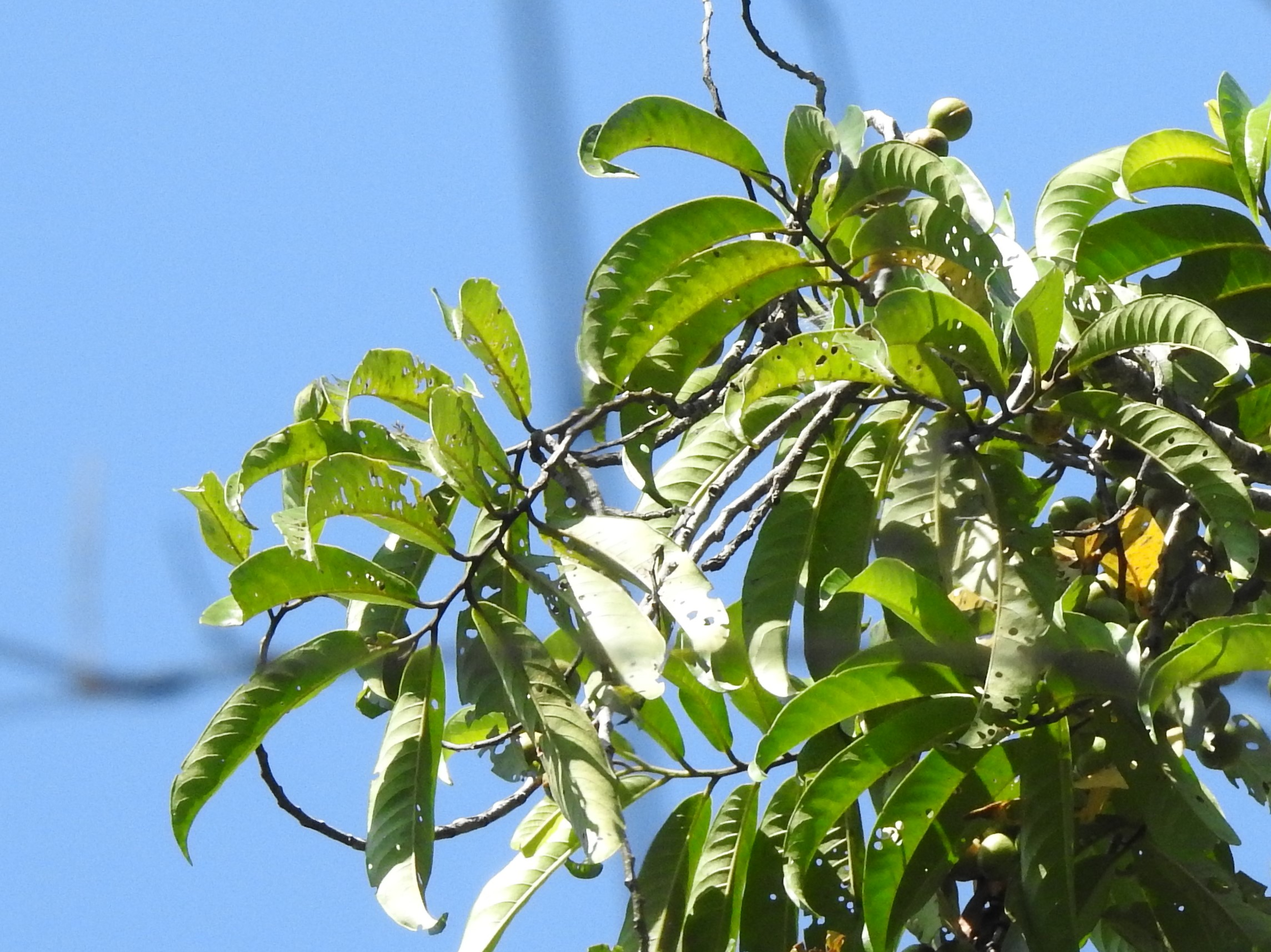 Fruiting Horsfieldia irya in the littoral zone en route to the limestone cave, Nilambur forest division, Baratang, Andaman and Nicobar Islands